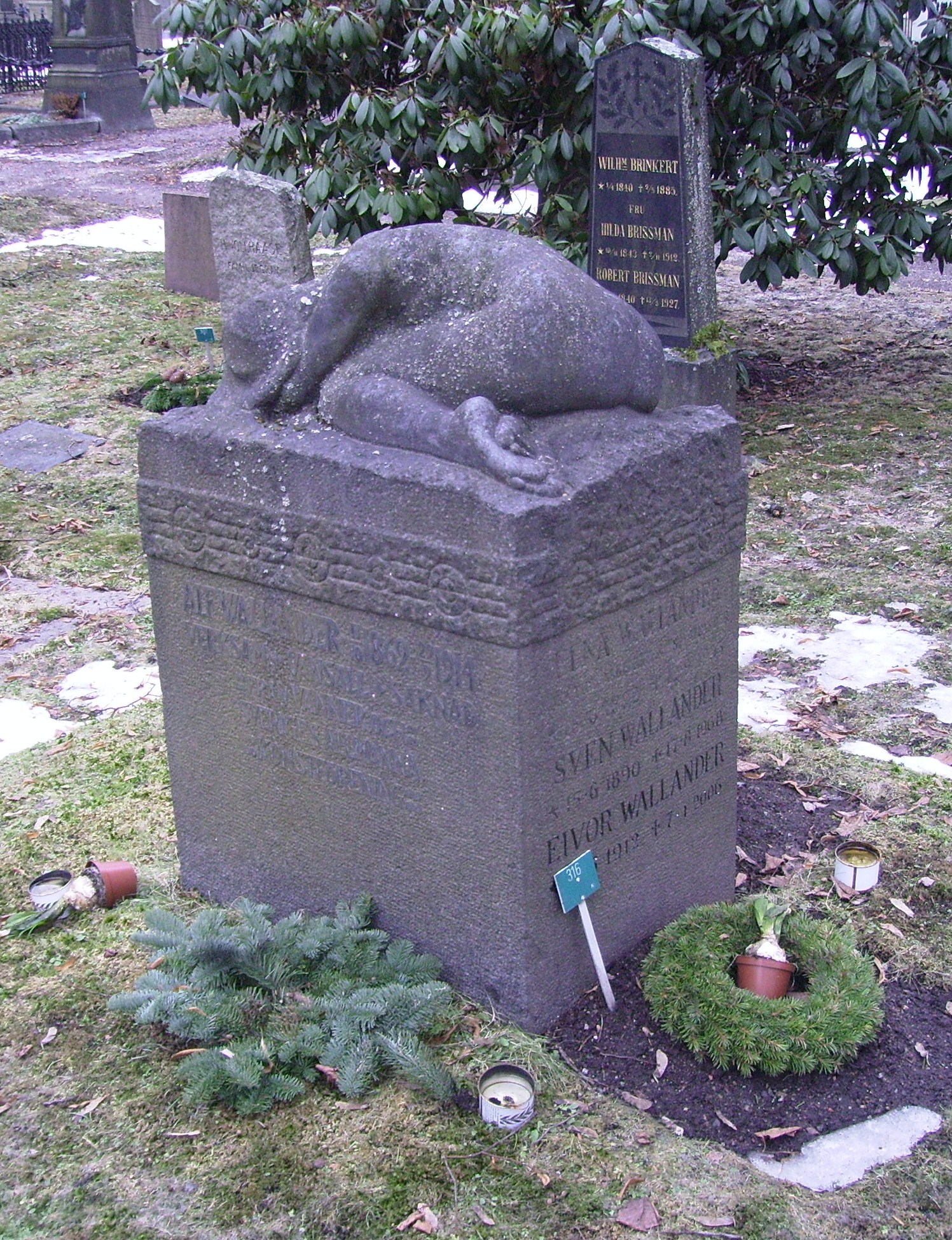 Picture of Alf and Sven Wallander's grave at Solna kyrkogård